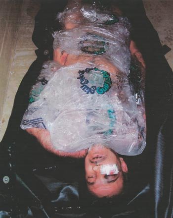 The body of Manadel al-Jamadi, dubbed the "Iceman", wrapped in cellophane and packed in ice, believed to have been taken at Abu Ghraib prison near Baghdad, Iraq. Manadel was tortured and died in US custody on 4 November 2003. U.S. Army/Criminal Investigation Command (CID). Seized by the U.S. Government. Note: The photograph was first published in The New Yorker magazine in May 2004: see (1) Torture scandal: The images that shamed America. (May 2004). Archived from the original on March 24, 2008. Retrieved on February 28, 2011; (2) In pictures: Iraqi prisoner abuse. BBC News Online (June 15, 2004). Archived from the original on March 31, 2008. Retrieved on February 28, 2011; (3) Scott Horton (April 3, 2008). "Yoo Too". Harper's Magazine. Archived from the original on June 9, 2008. Retrieved on February 28, 2011.